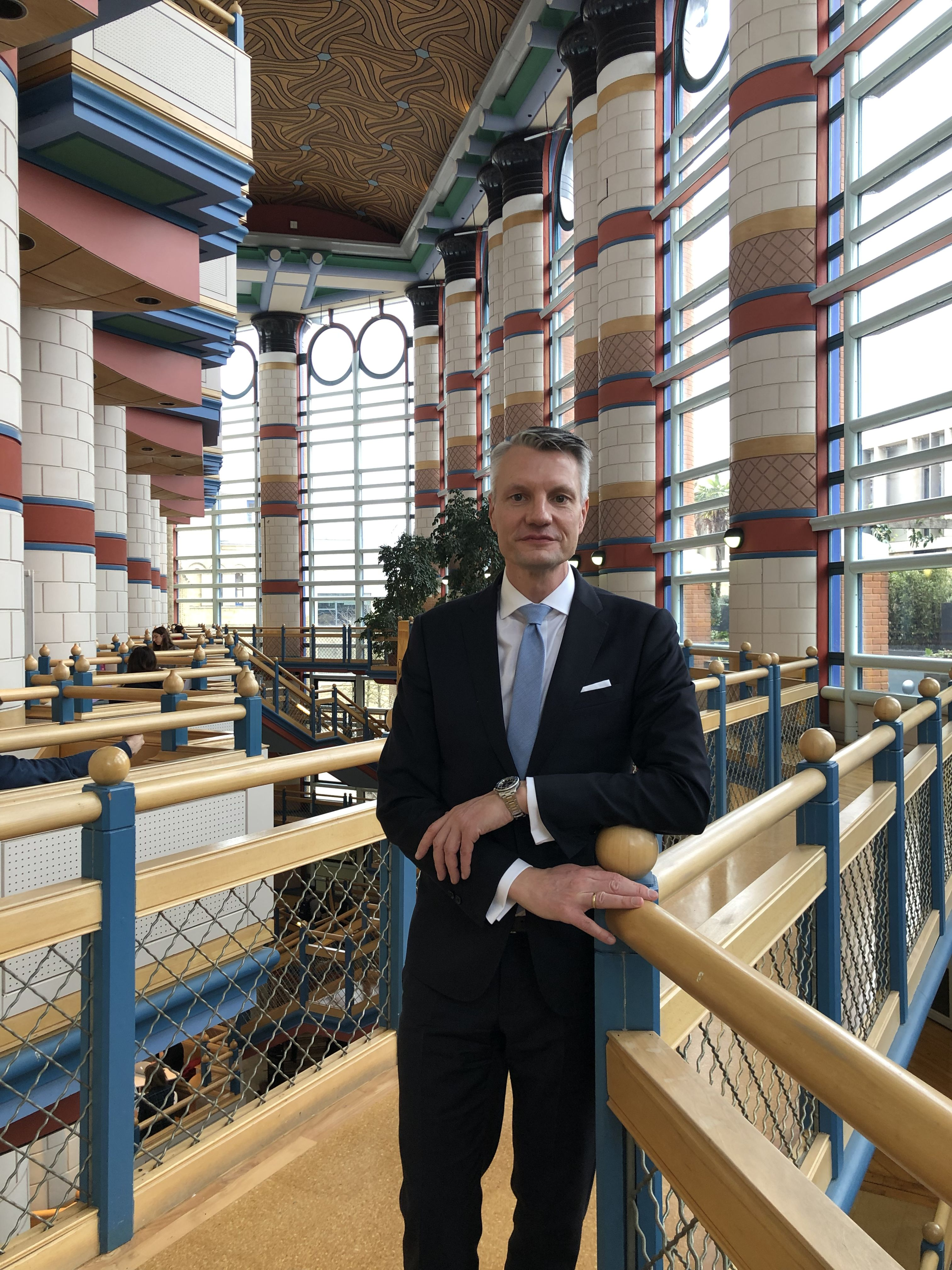 Marc Oliver Opresnik at the Cambridge Judge Business School